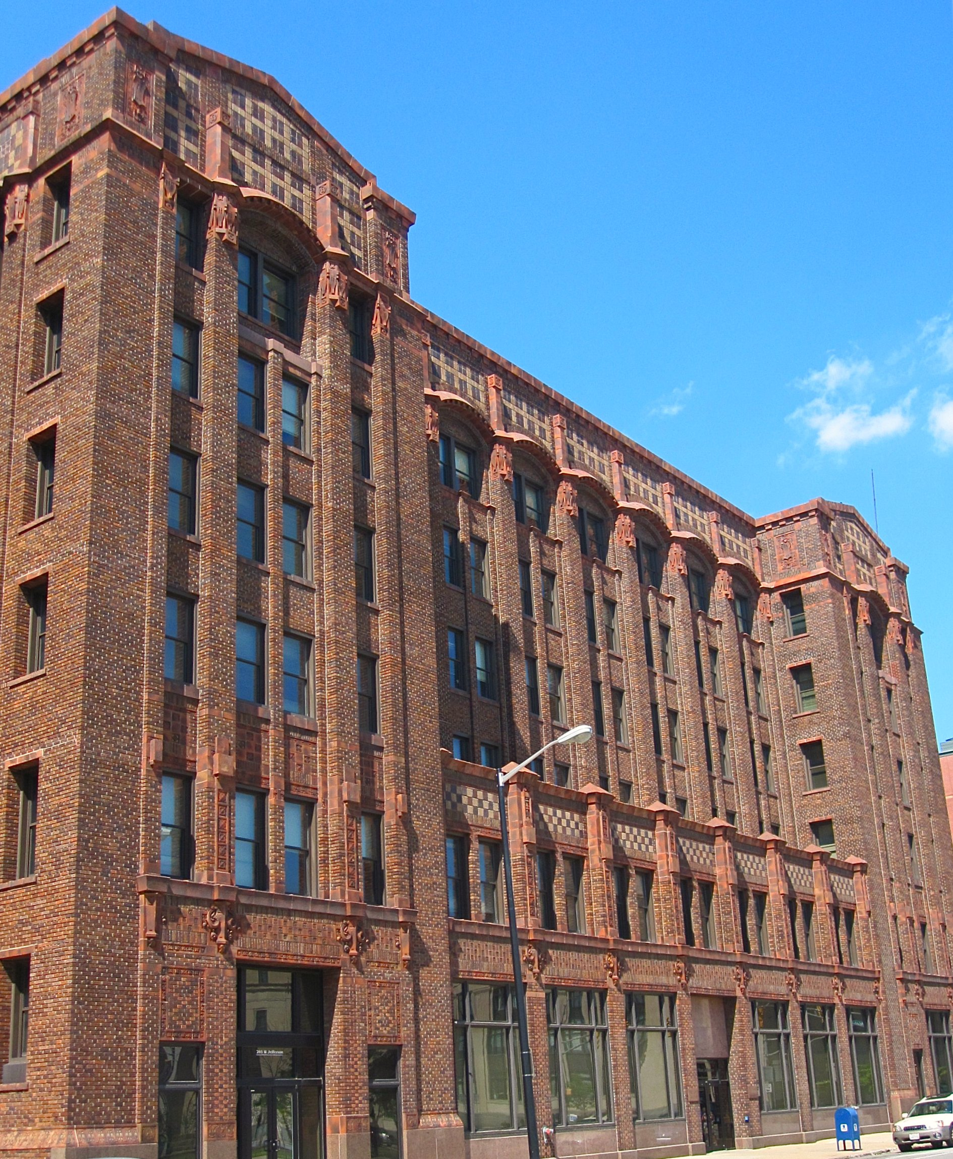 Northern side and front of the Farmers Security Bank, located at 133 S. Main Street in South Bend, Indiana, United States. Built in 1915, it is listed on the National Register of Historic Places, and it is part of a Register-listed historic district, the West Washington Historic District.